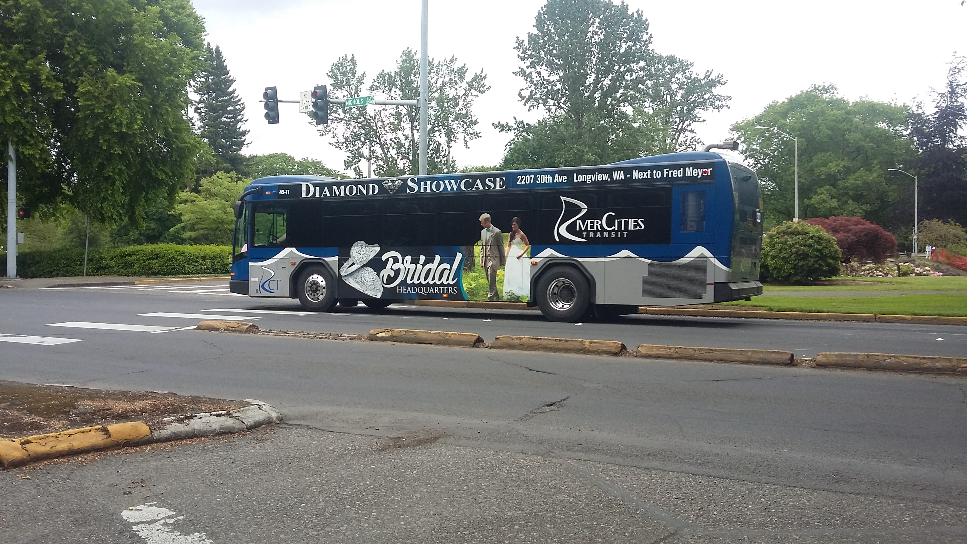 A RiverCities Transit bus in Longview, at the intersection of Nichols Boulevard & Louisiana Street.